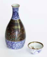 Tokkuri i choko